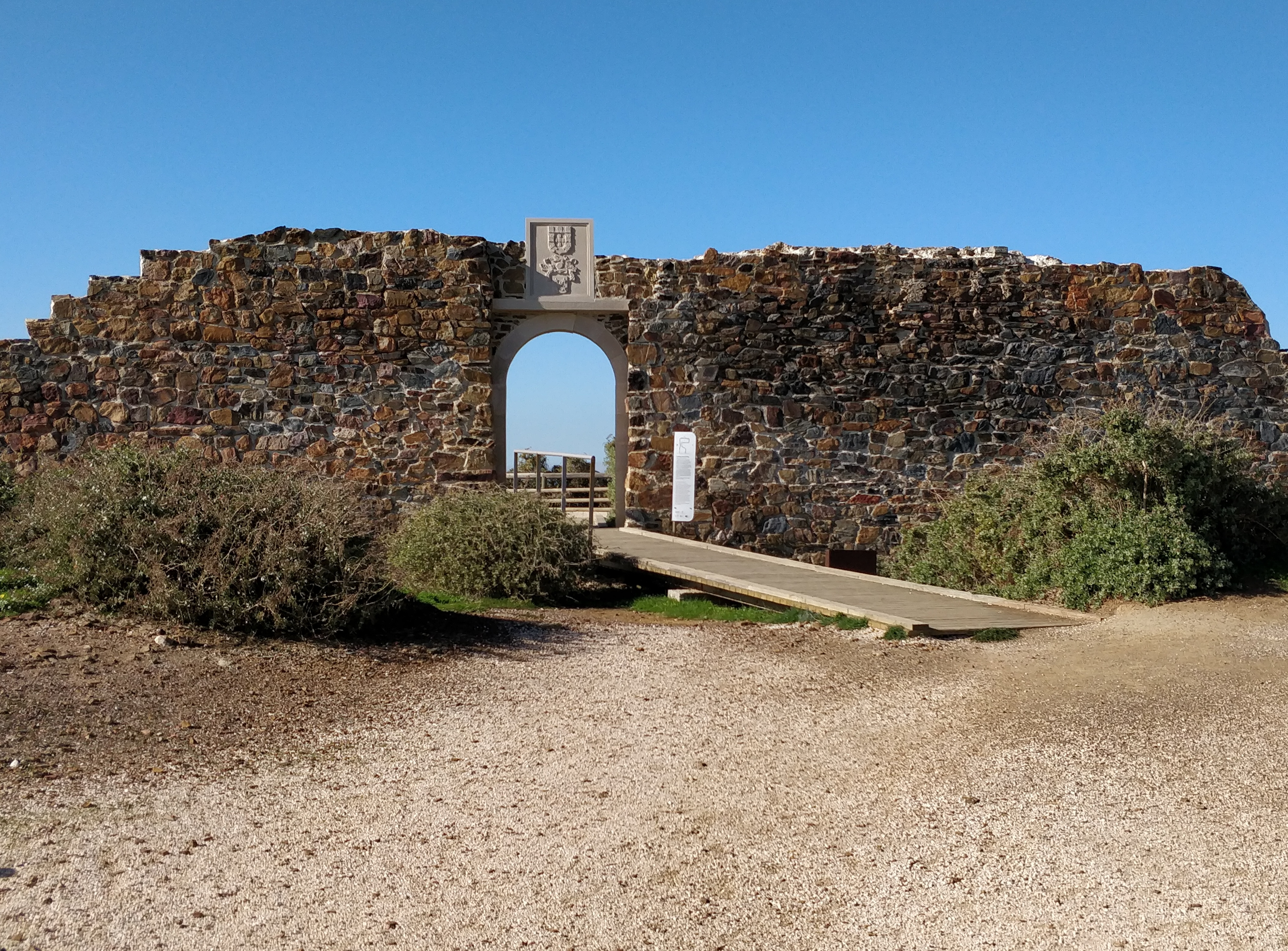 Reconstructed front of the Fort of Arrifana, in the municipality of Aljezur, Faro (district), Algarve, Portugal